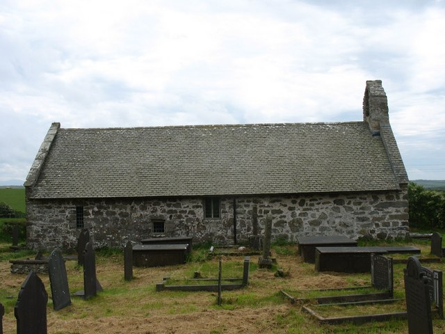 Eglwys Pabo Sant from the north